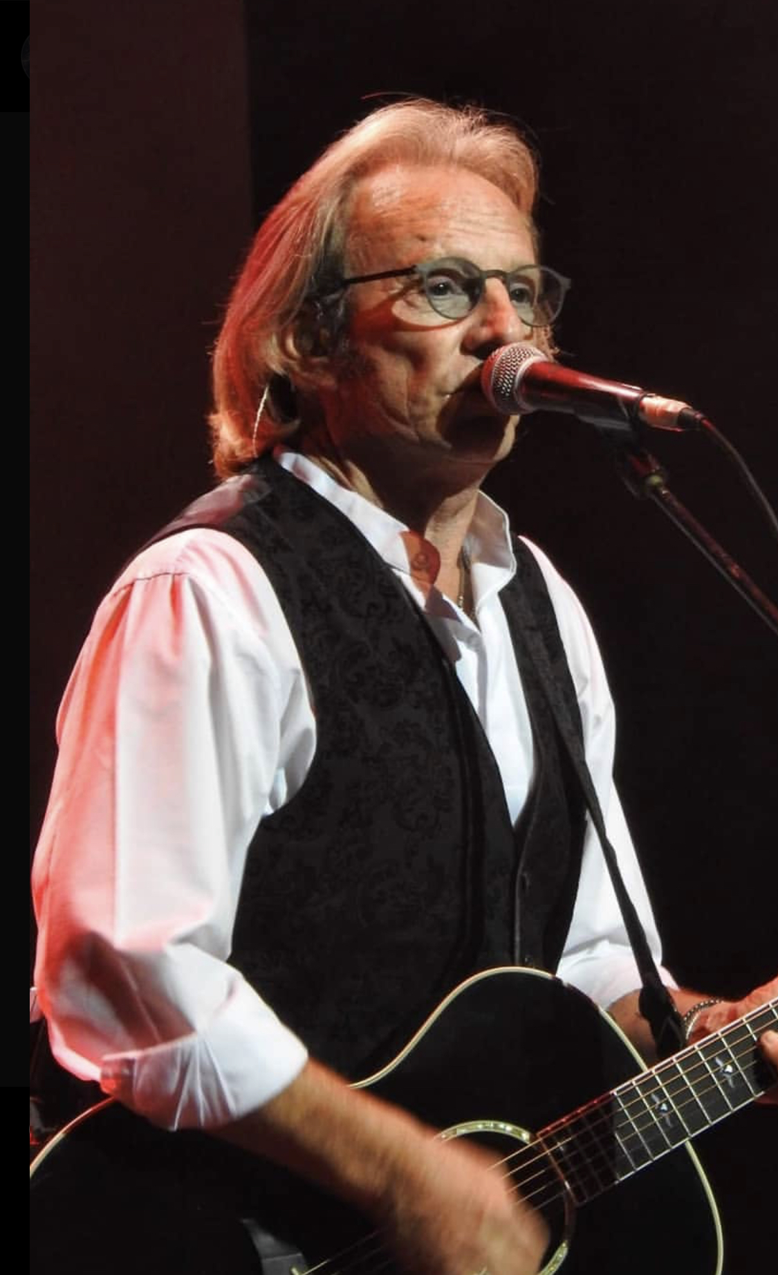 Dewey Bunnell Live in concert